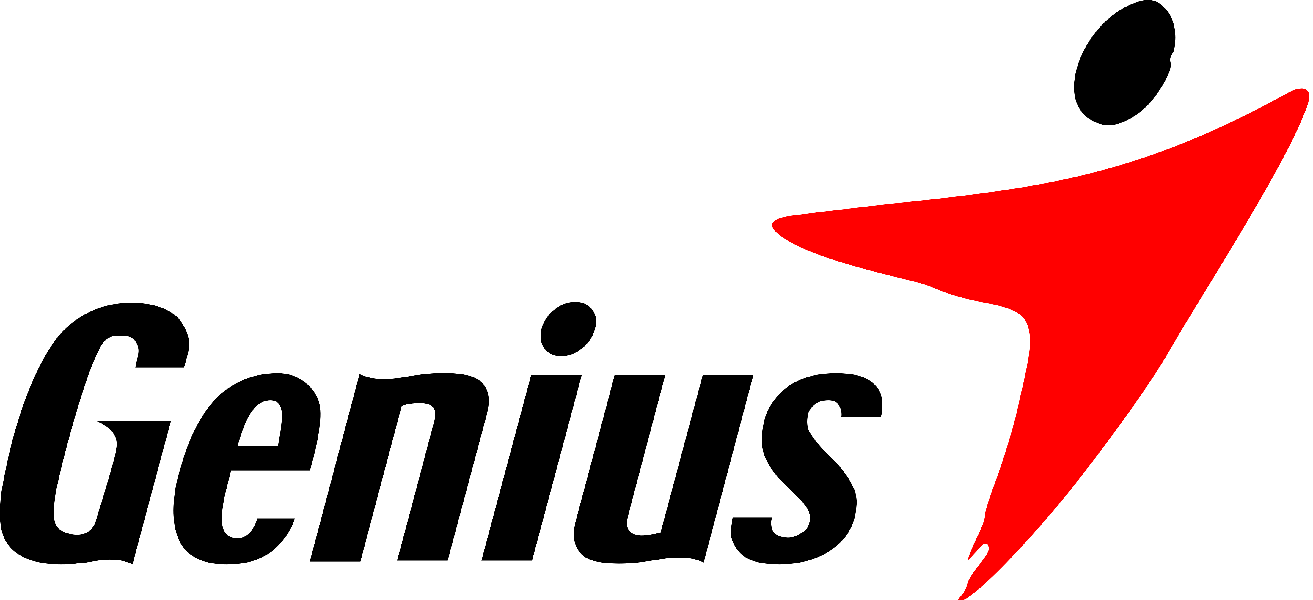 KYE Systems Corp. is a company founded in 1983, with headquarters in Taiwan.